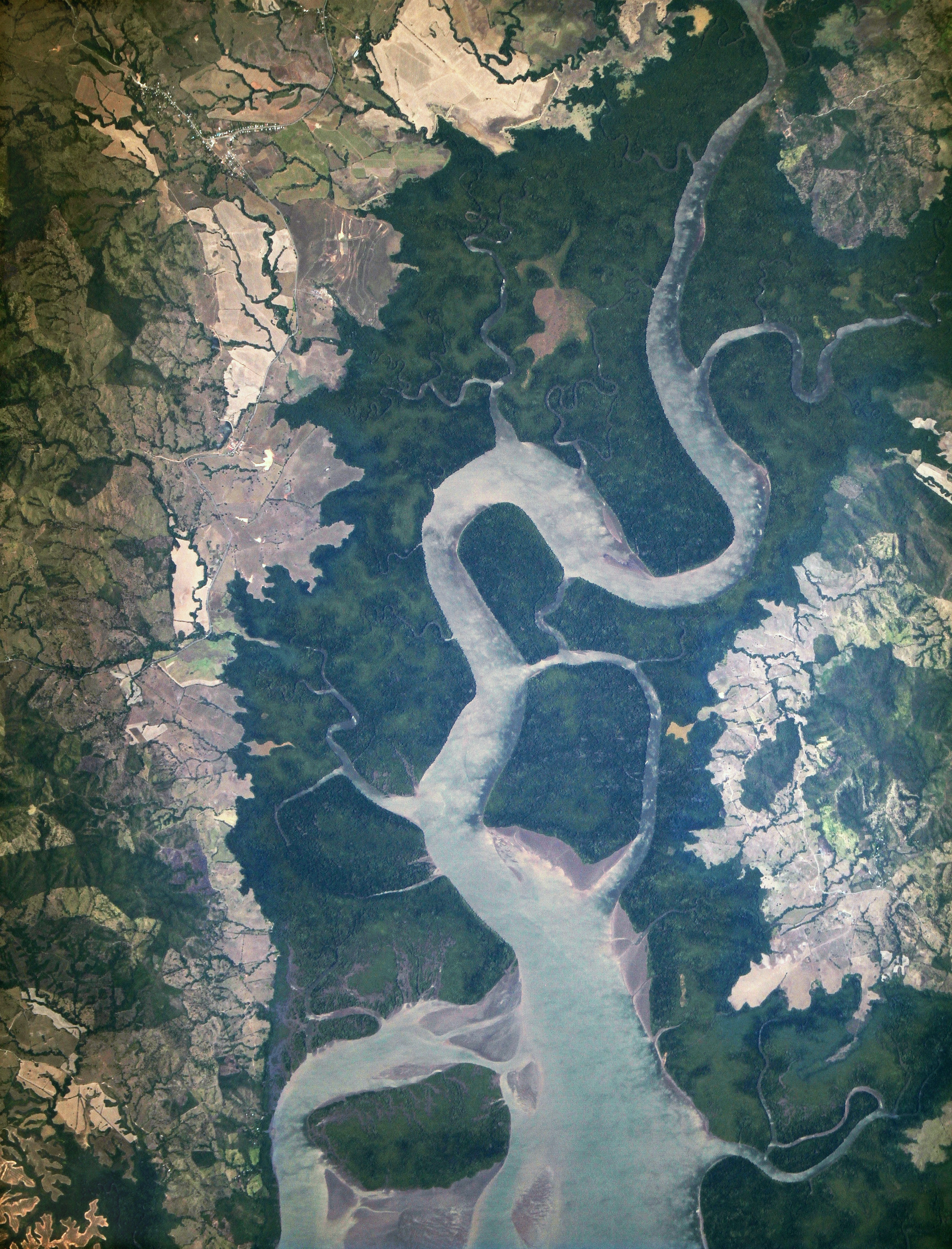 The image above is the “first light” from the new ISERV camera system, taken at 1:44 p.m. local time on February 16, 2013. It shows the Rio San Pablo as it empties into the Golfo de Montijo in Veraguas, Panama. It is an ecological transition zone, changing from agriculture and pastures to mangrove forests, swamps, and estuary systems. The area has been designated a protected area by the National Environmental Authority (ANAM) of Panama and is listed as a “wetland of international importance” under the Ramsar Convention. (Note that the image is rotated so that north is to the upper right.)